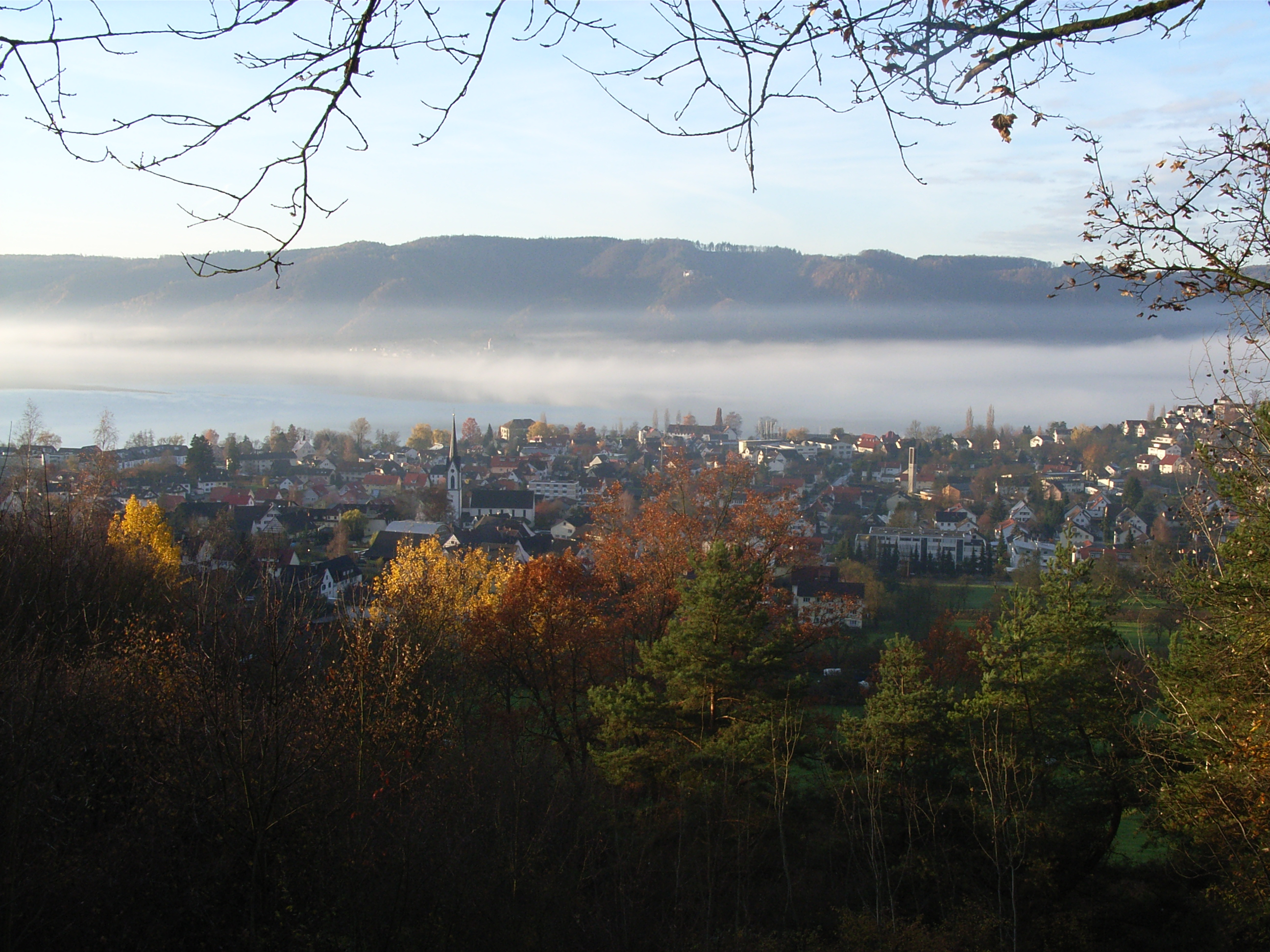 Bodman-Ludwigshafen im Nebel